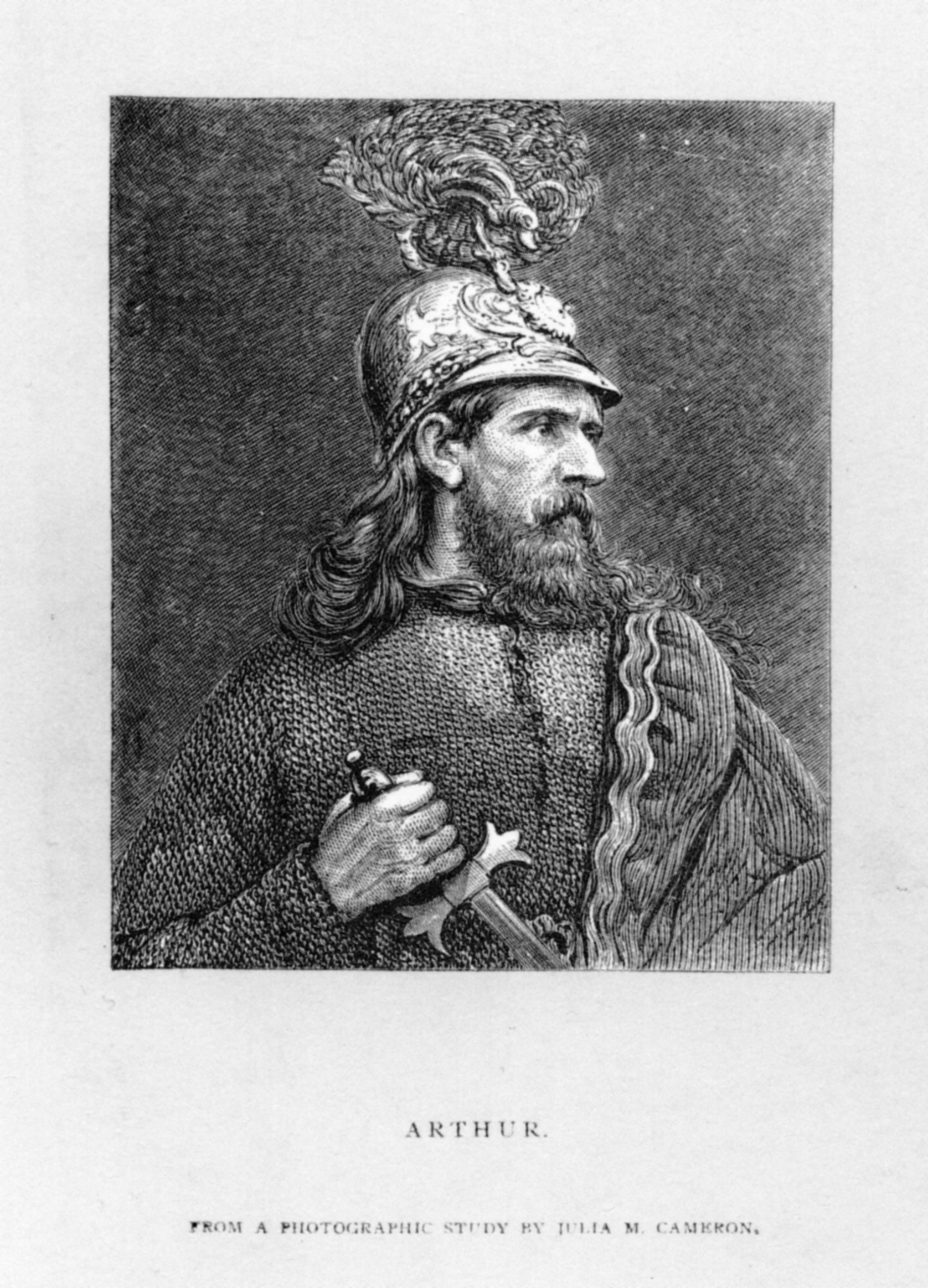 William Warder posed as King Arthur. Frontispiece from Idylls of the King.